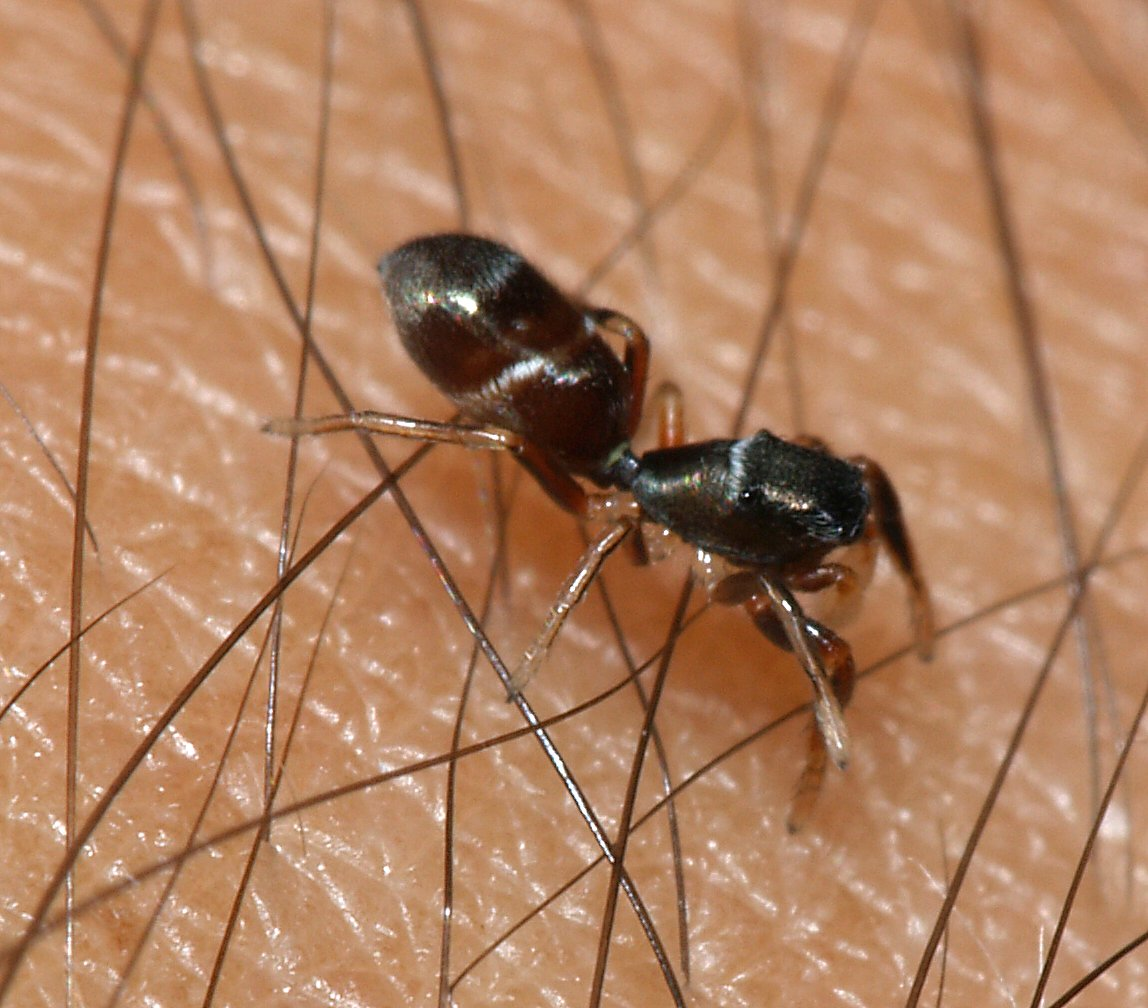 Synageles venator from a garden in Heupelzen, Germany.